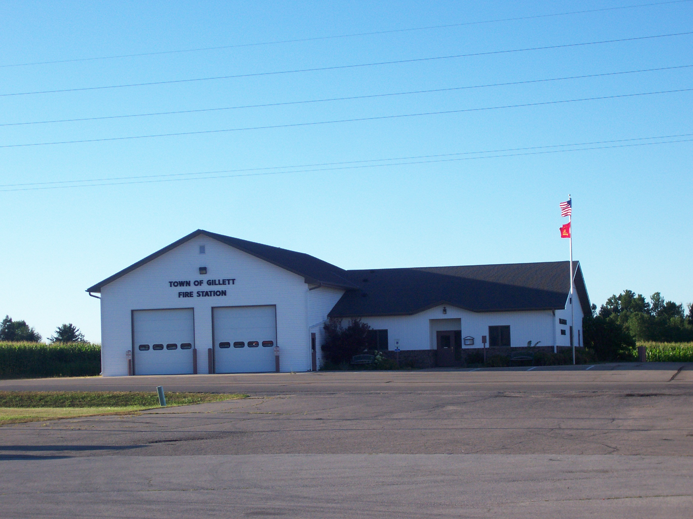 The fire station for the town of Gillett (town), Wisconsin just off Wisconsin Highway 32.